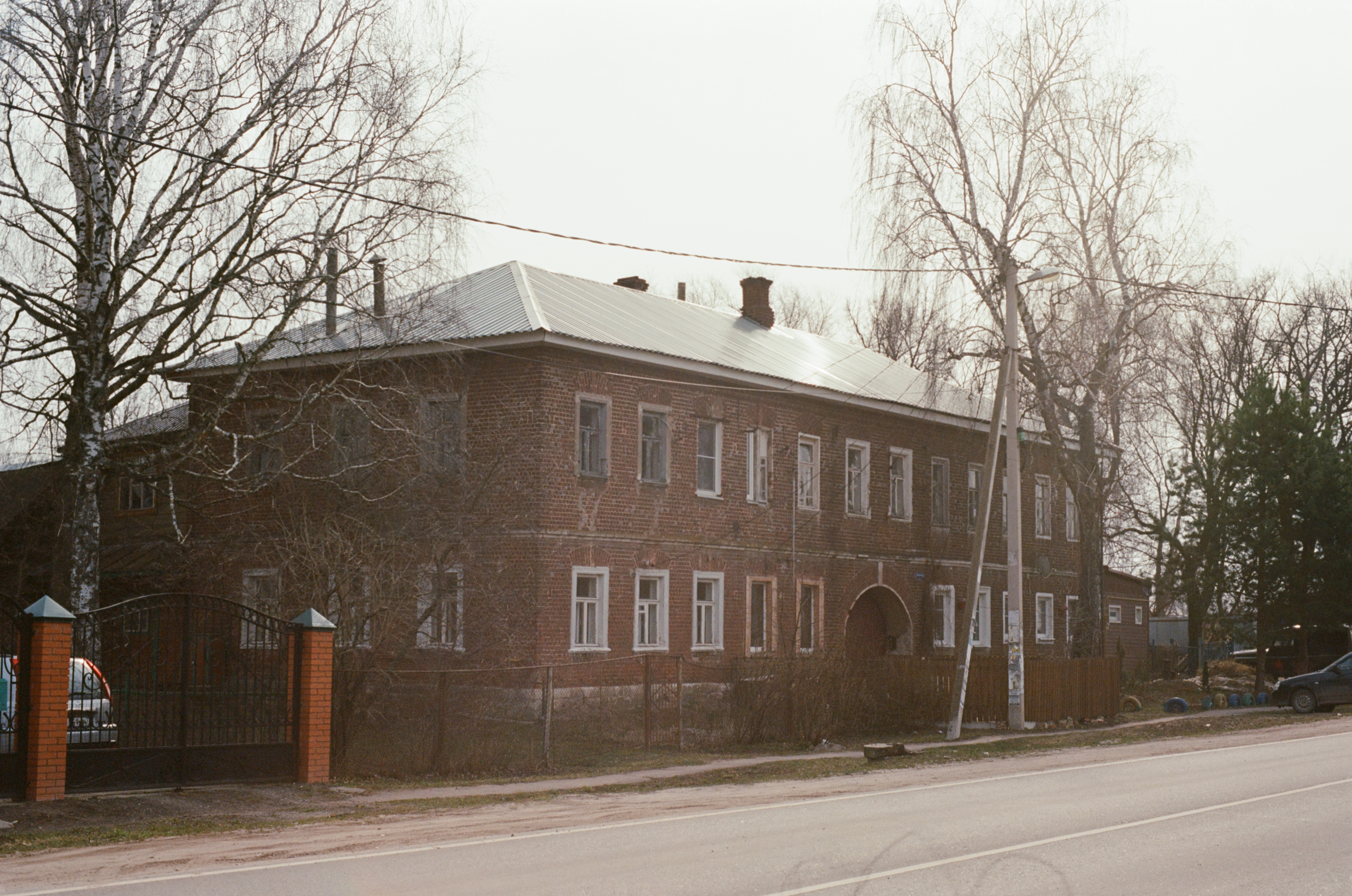 Ricoh KR-10X Kodak Ektar 100